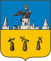 Trubchevsk (Bryansk oblast), formerly Oryol governement, coat of arms (1781)